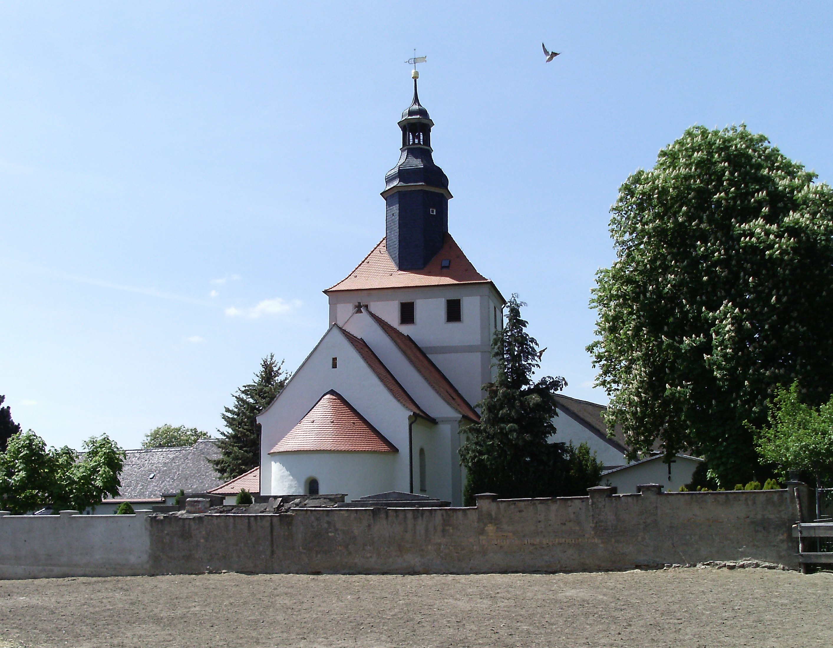 Saint Martin's Church in Threna (Belgershain, Leipzig district, Saxony)